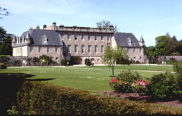 Gordonstoun House at grid reference NJ184689 in Duffus, Moray, Scotland. Originally the seat of a branch of the Gordon family, this is now the main building of Gordonstoun School.